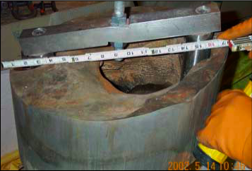 Davis-Besse Nuclear Power Station: Nozzle #3 Area Cut Away From Reactor Head